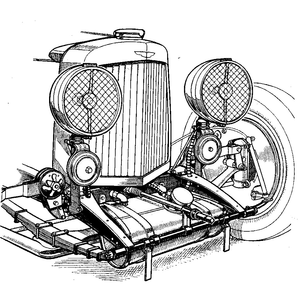 Aston Martin oil tank for dry sump lubrication (Autocar Handbook, 13th ed, 1935).jpg